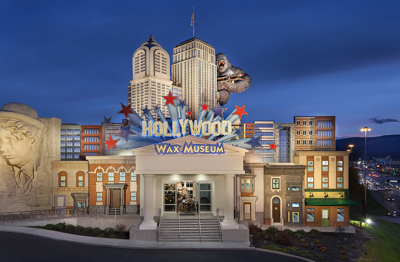 Exterior shot of Hollywood Wax Museum in Pigeon Forge, Tennessee. Features the Great Ape of Pigeon Forge along a city skyline.